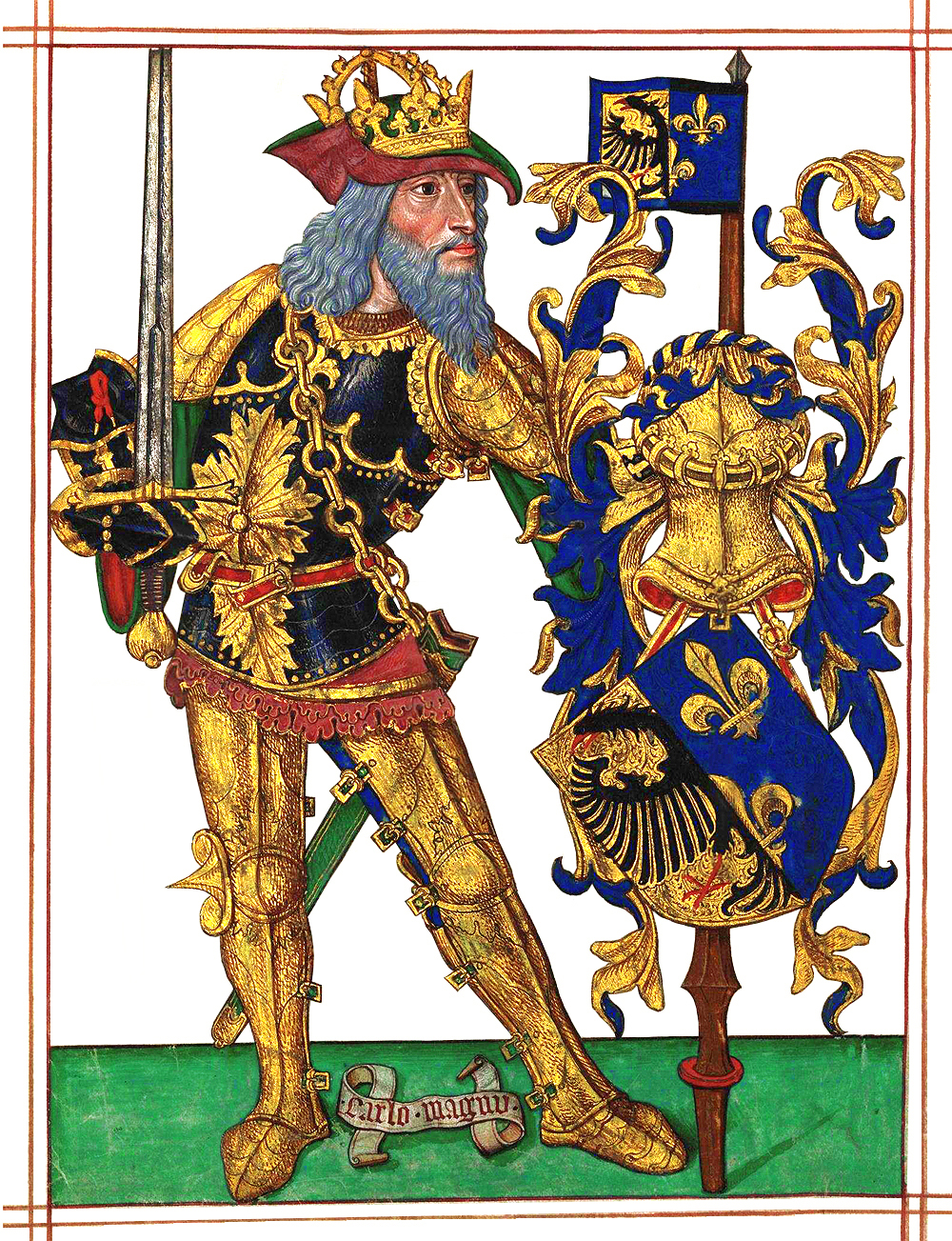 Charlemagne